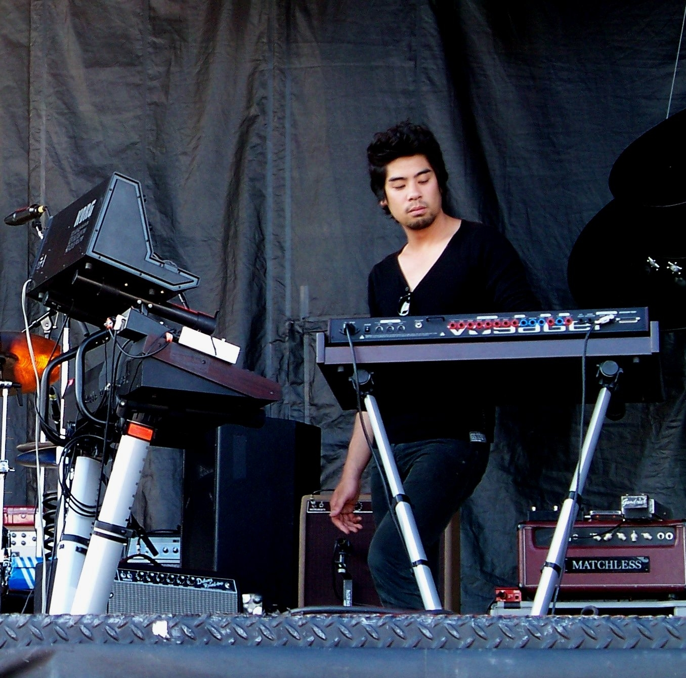 Ladytron's Reuben Wu at Ottawa Bluesfest, 2008